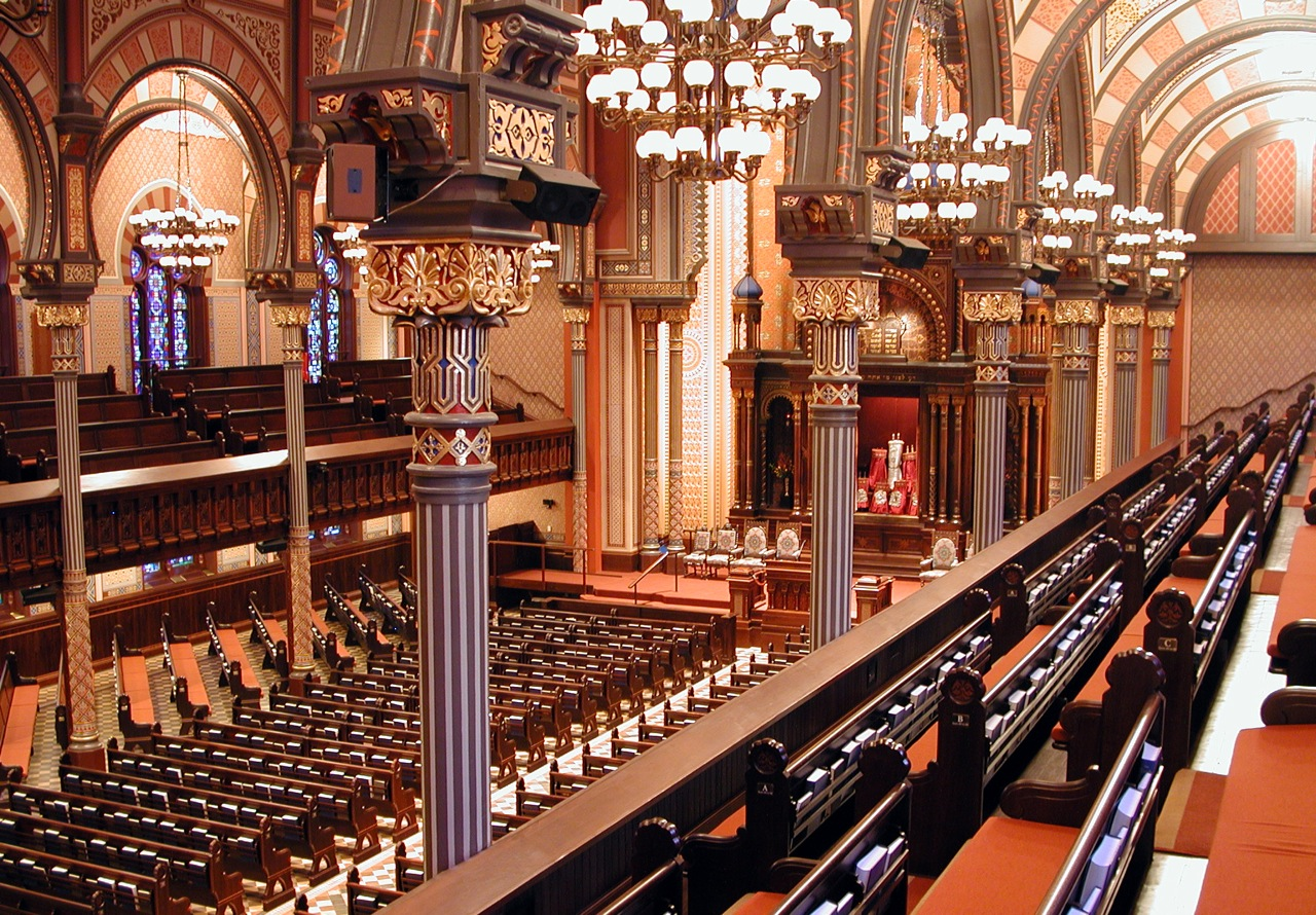 WSDG's work at Central Synagogue in NY